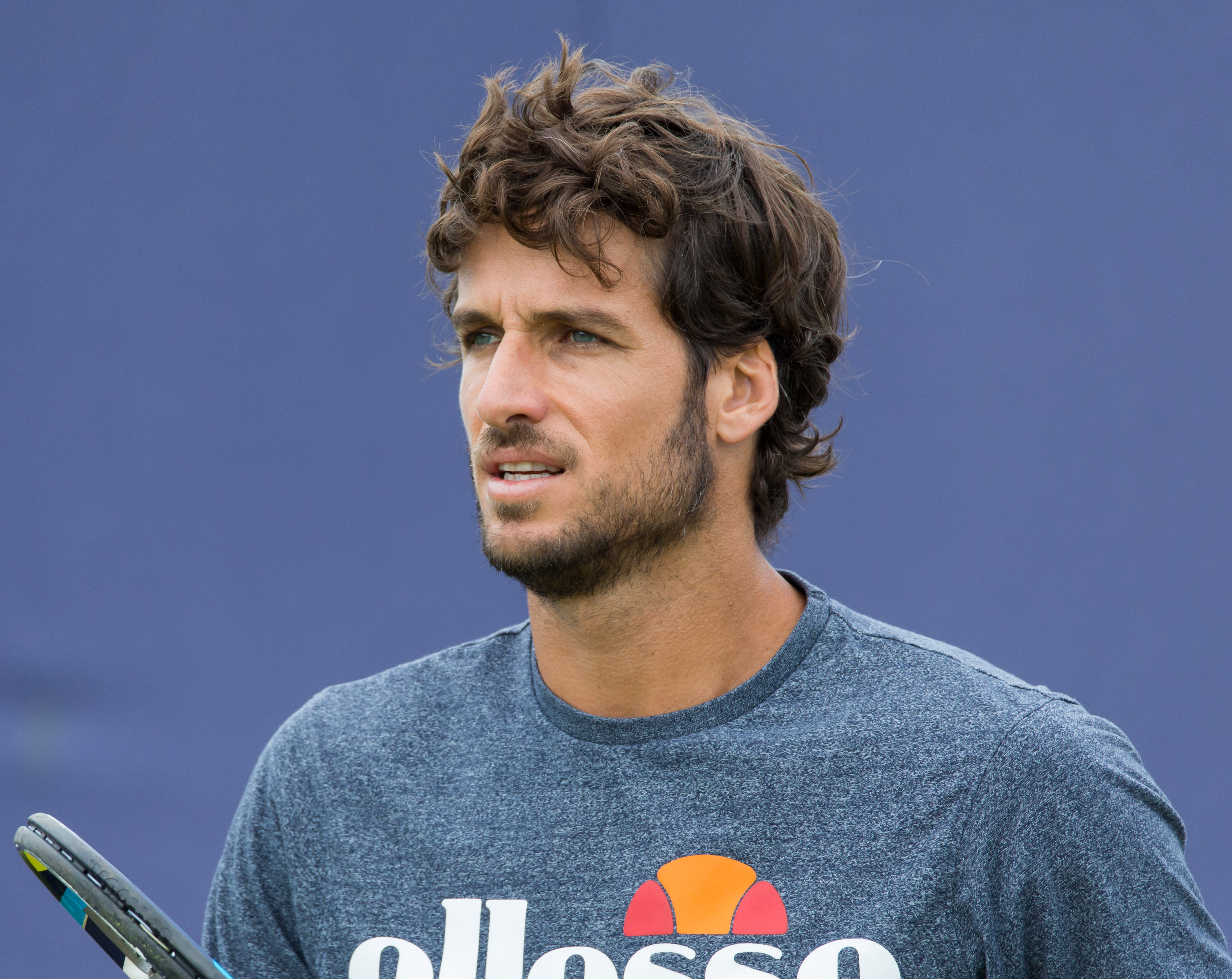 Feliciano López during practice at the Queens Club Aegon Championships in London, England.